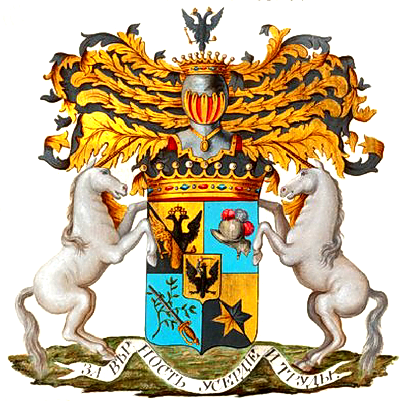 1 = Coat of arms of the Count Saltykov family.